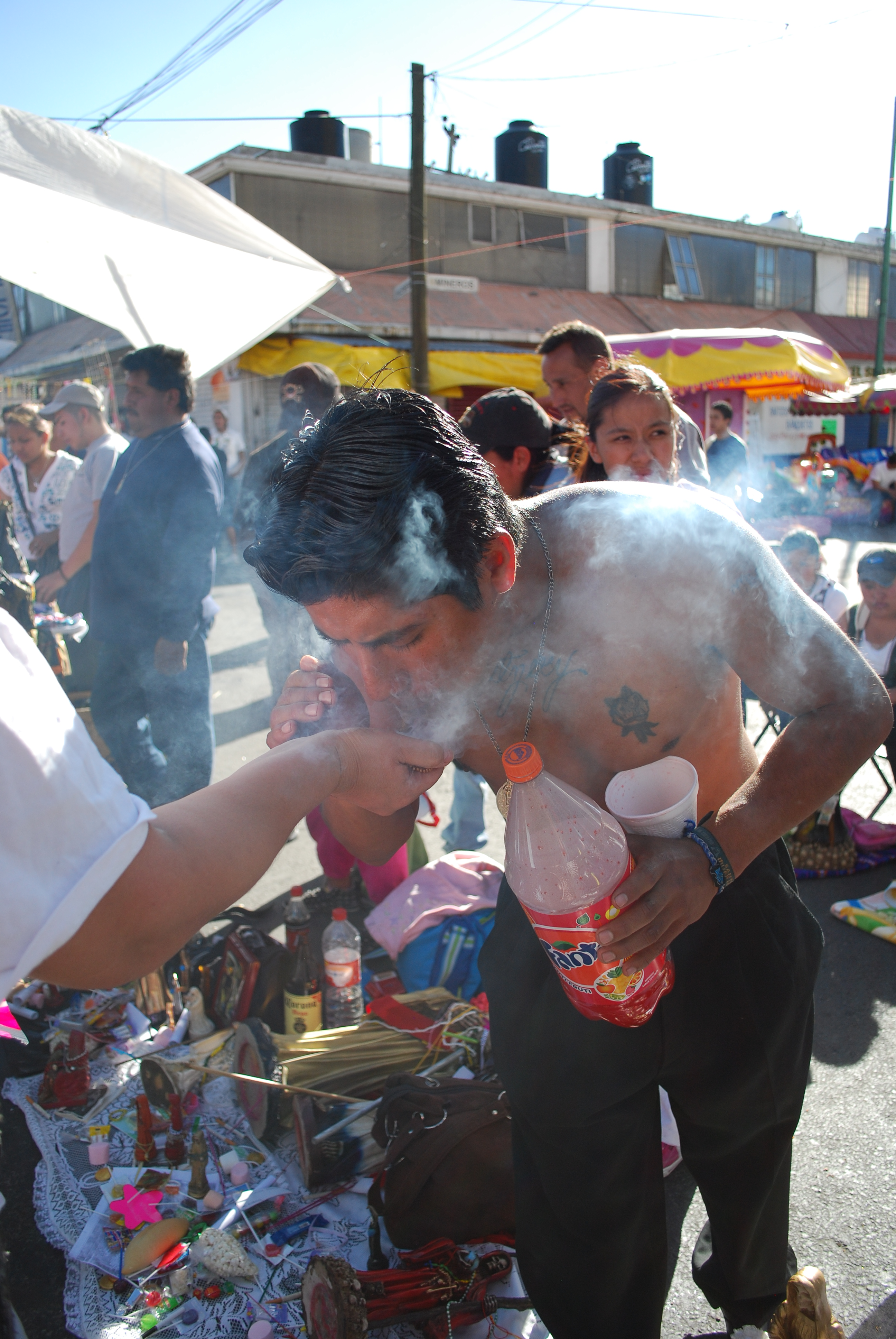 Man blowing smoke onto a miniature image of Santa Muerte held in the palm of another. In Tepito, Mexico City.